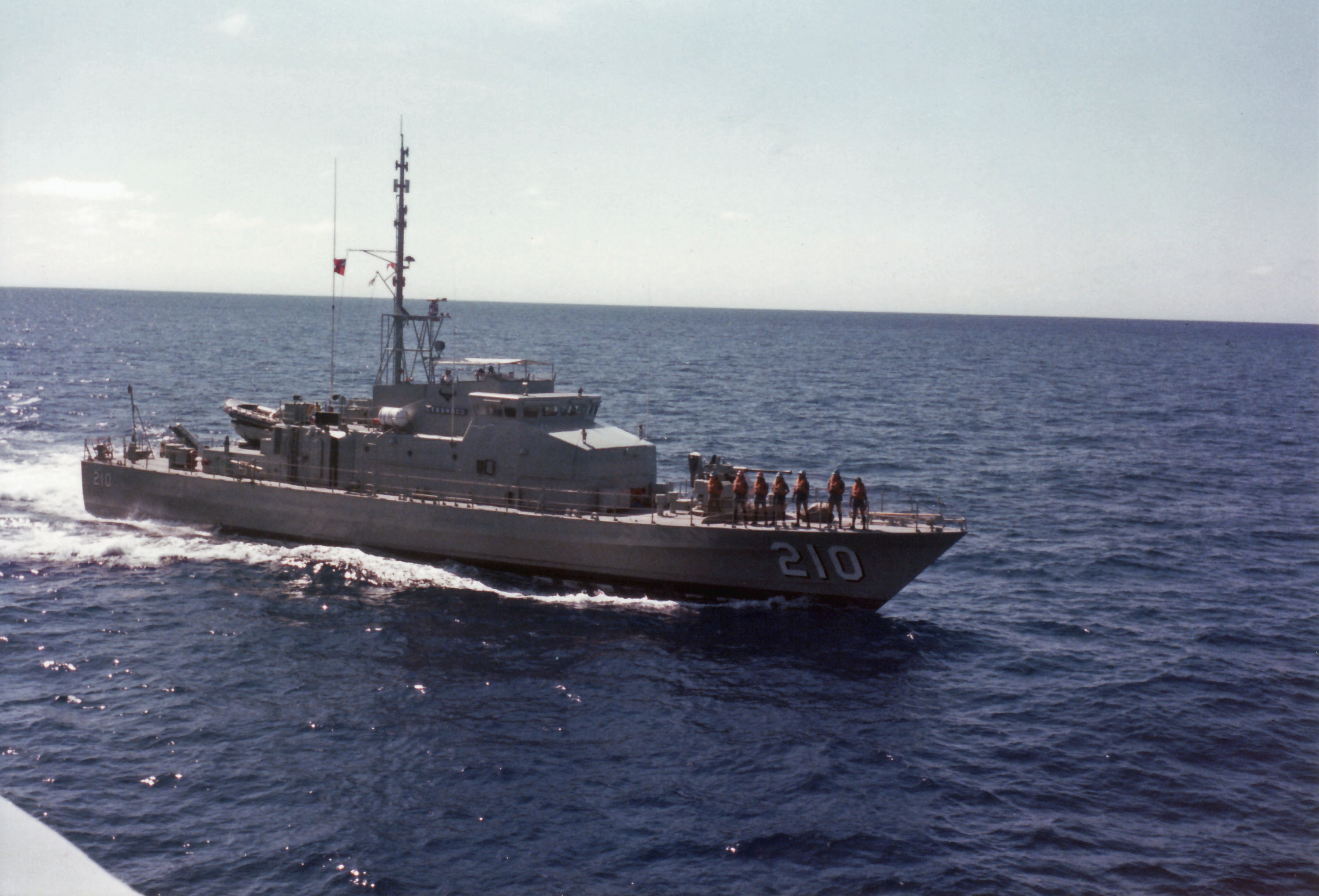 HMAS Cessnock Fremantle class Patrol Boat (FCPB 210) Photo taken from HMAS Darwin, mid 1980s